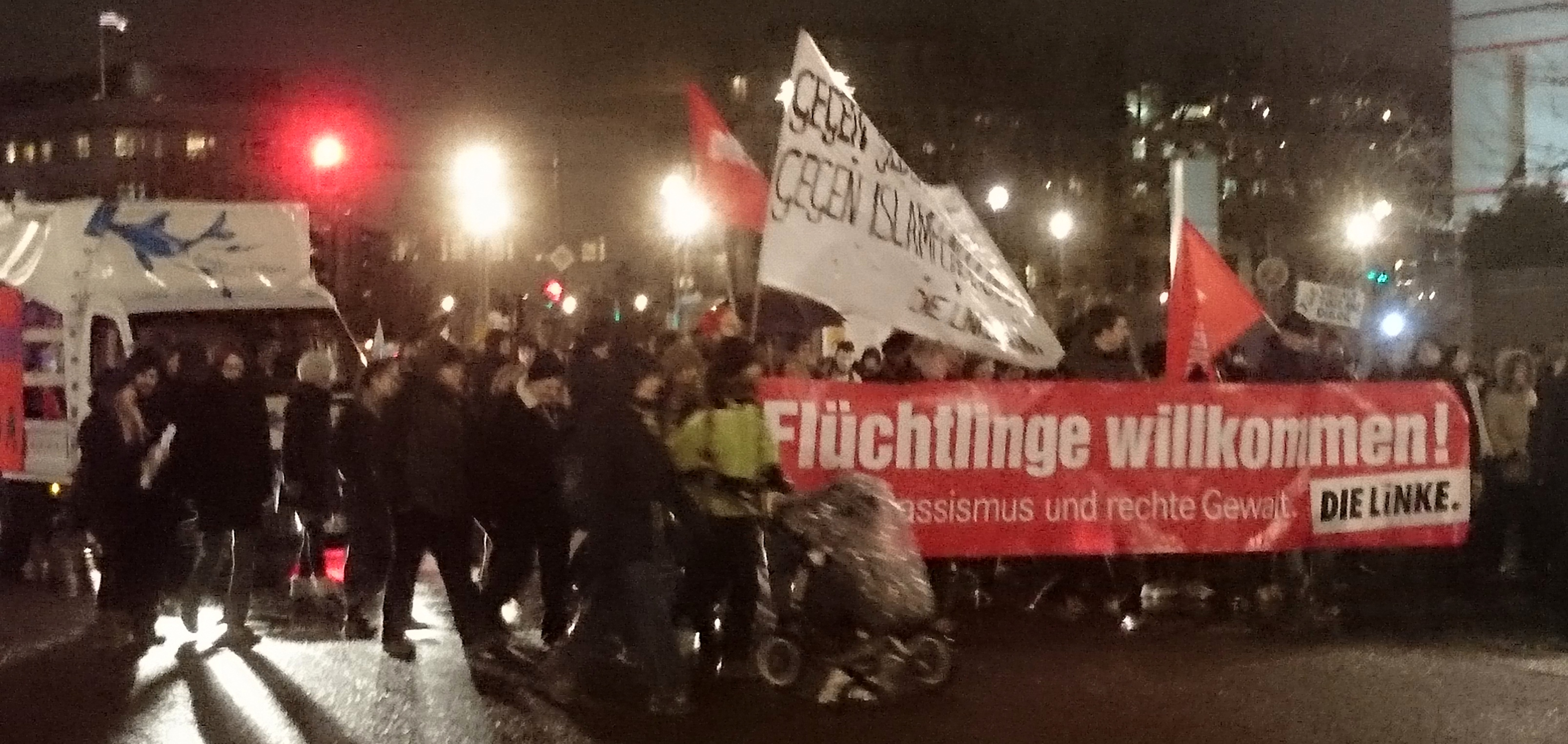 Berlin in winter